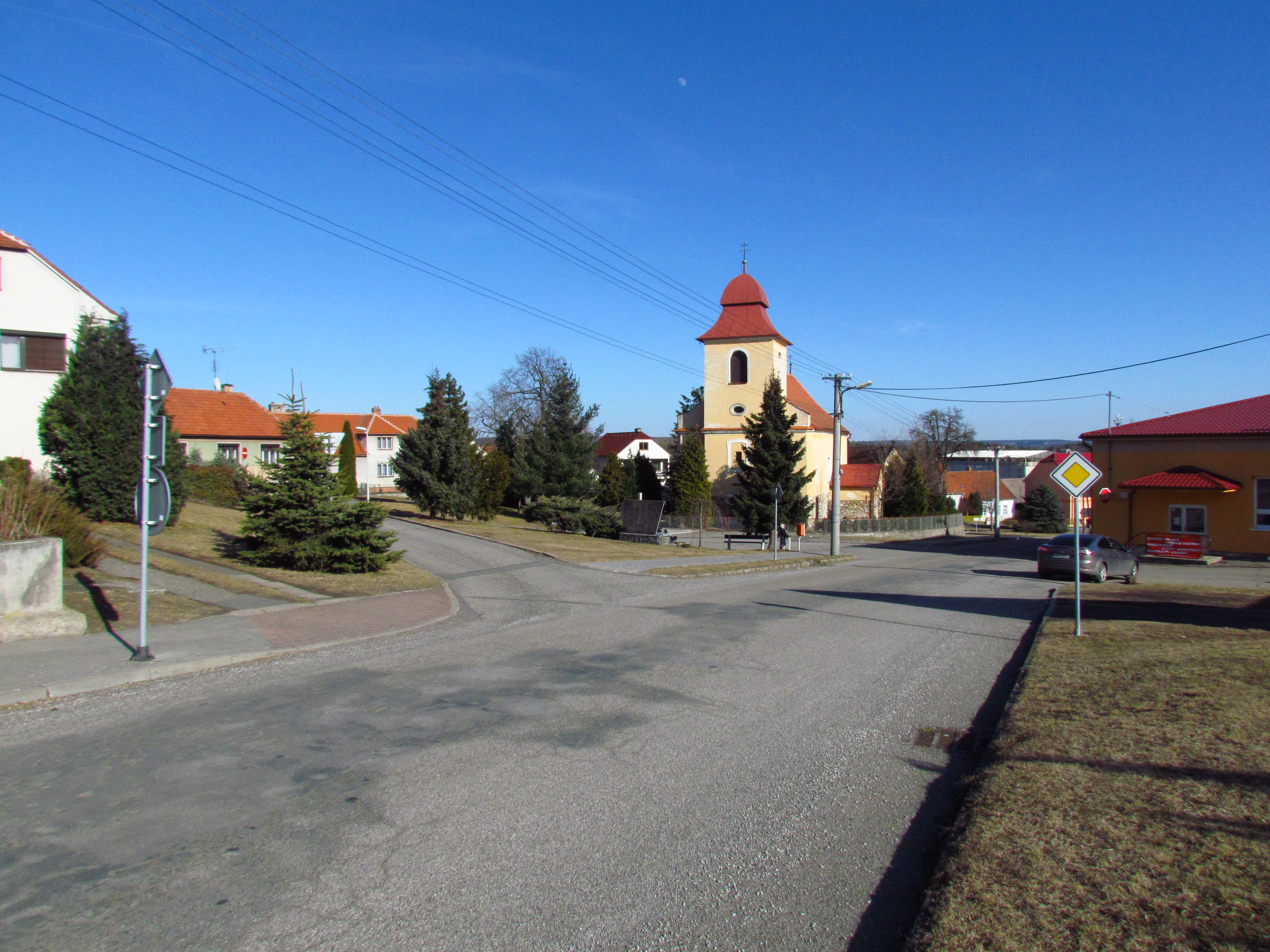 Top part of Vícenice u Náměště nad Oslavou, Třebíč District.